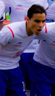 Mexican player Omar Bravo